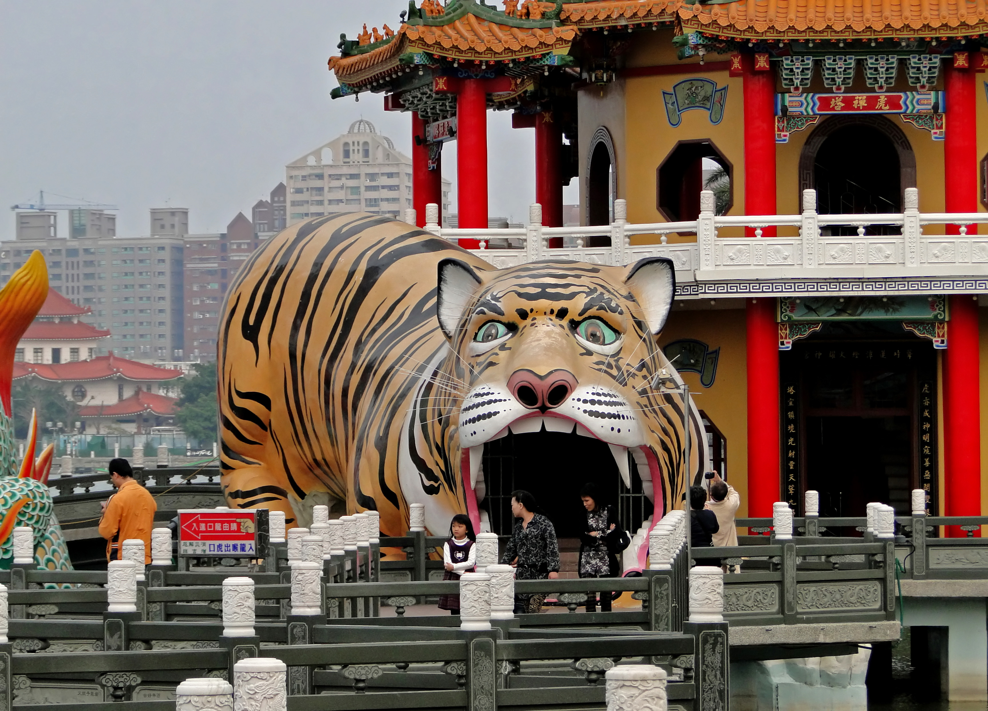 The tiger at Dragon and Tiger Pagodas, Kaohsiung, Taiwan